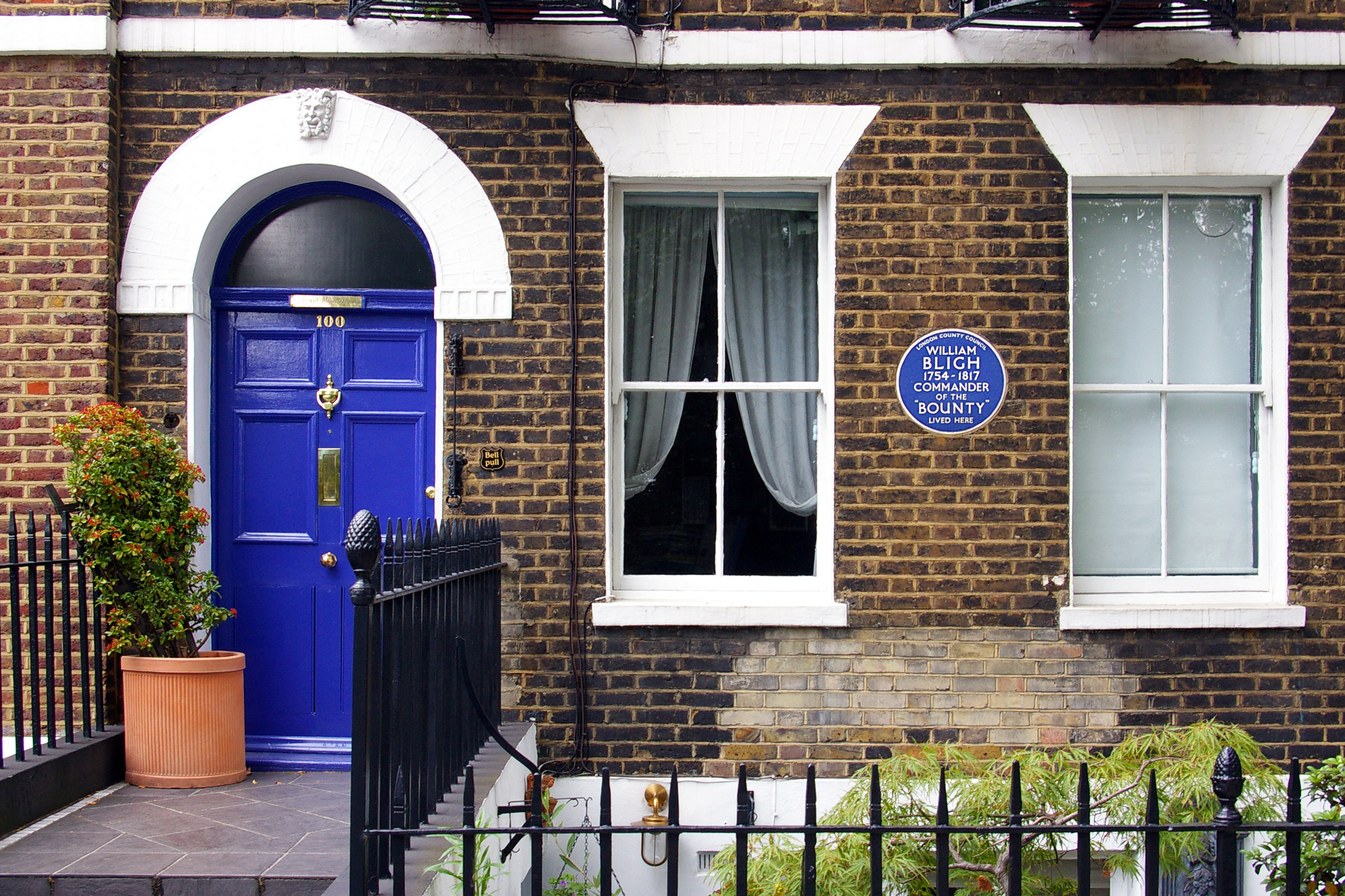 The house of William Bligh in 100 Lambeth Road/London, 150m west of Imperial War Museum